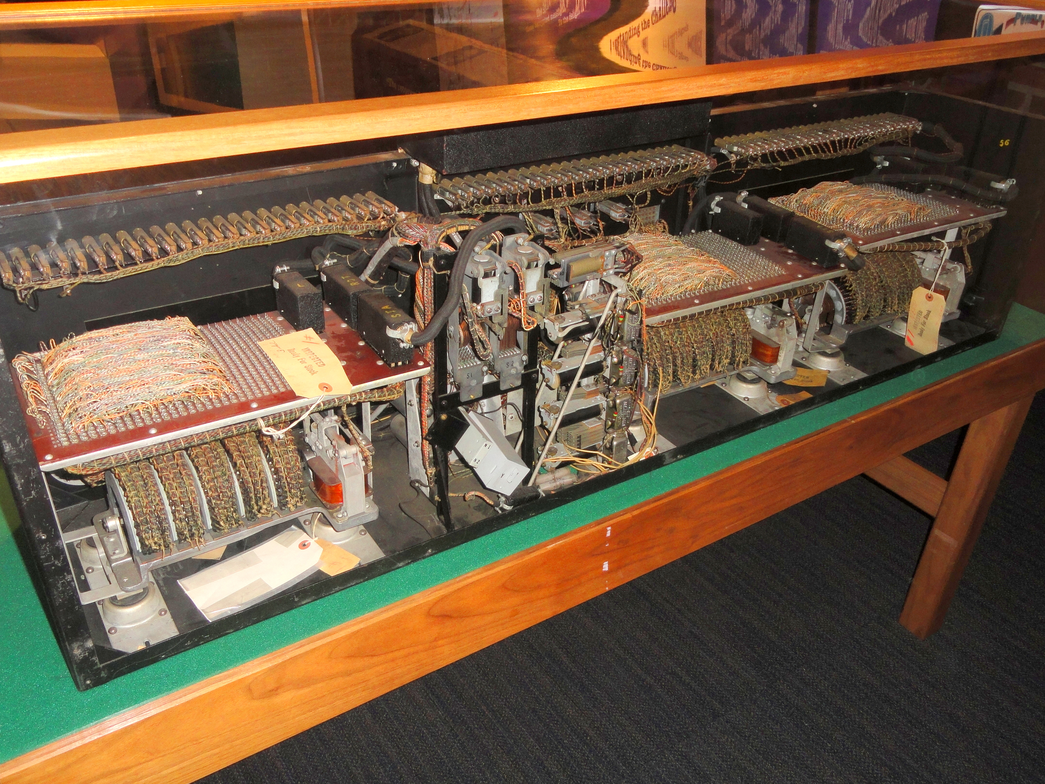 Internal wiring of the U.S. Army analog of the Japanese Type B Cipher Machine. This is the improved version of March 1944. All three stepping switch stages for the "twenties letters" are shown. The large rectangle panels with many wires implement the substitution matrices for each stage. Each twenties stepping switch is beneath its wiring panel. The three black connectors on the wiring panels are for the rotor (ROT) and stator (STA) connections to adjacent stages, and for the front panel indicator lights (L) that show the position of each rotor. The stepping switches for the "sixes" letters are near the middle. Exhibit in the National Cryptologic Museum, Fort Meade, Maryland, USA. All items in this museum are unclassified; items created by the United States Government are not subject to copyright restrictions.